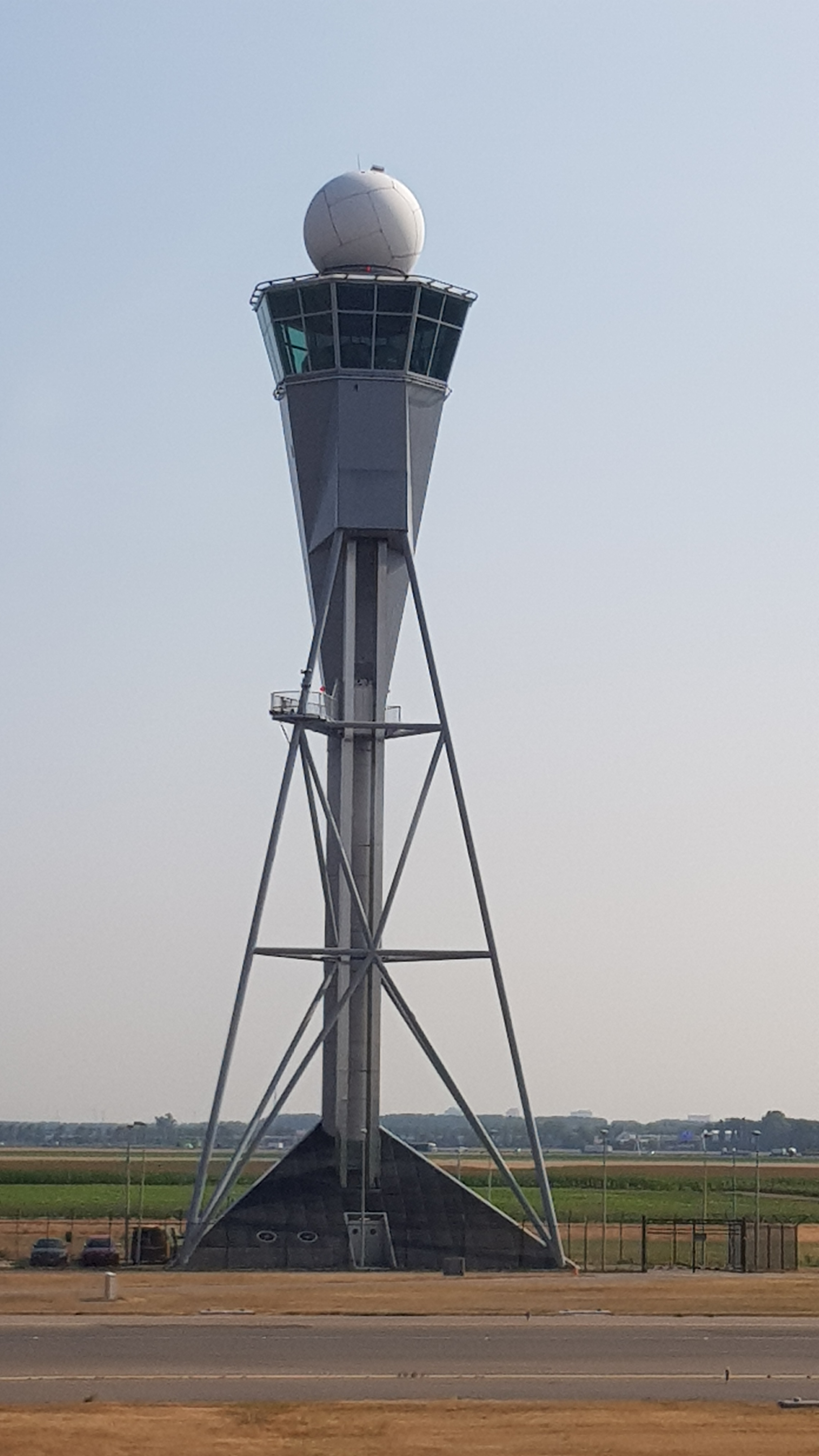 Schipholtoren West, control tower next to Polderbaan, Amsterdam Airport Schiphol, Netherlands